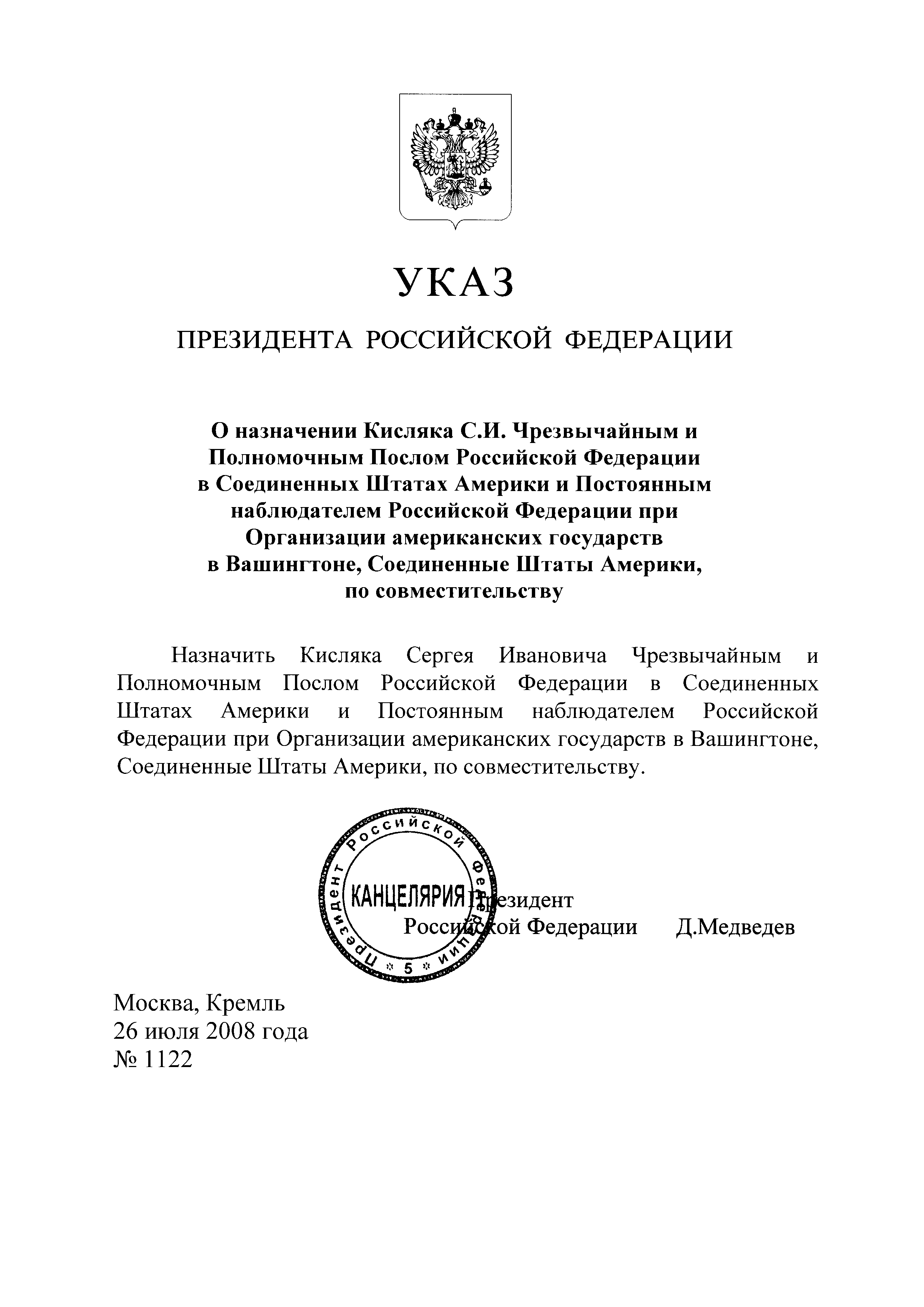 On the appointment of S.I. Kislyak as the Plenipotentiary Ambassador of the Russian Federation to the United States of America, and Permanent Representative of the Russian Federation to the Organisation of American States in Washington, United States of America.